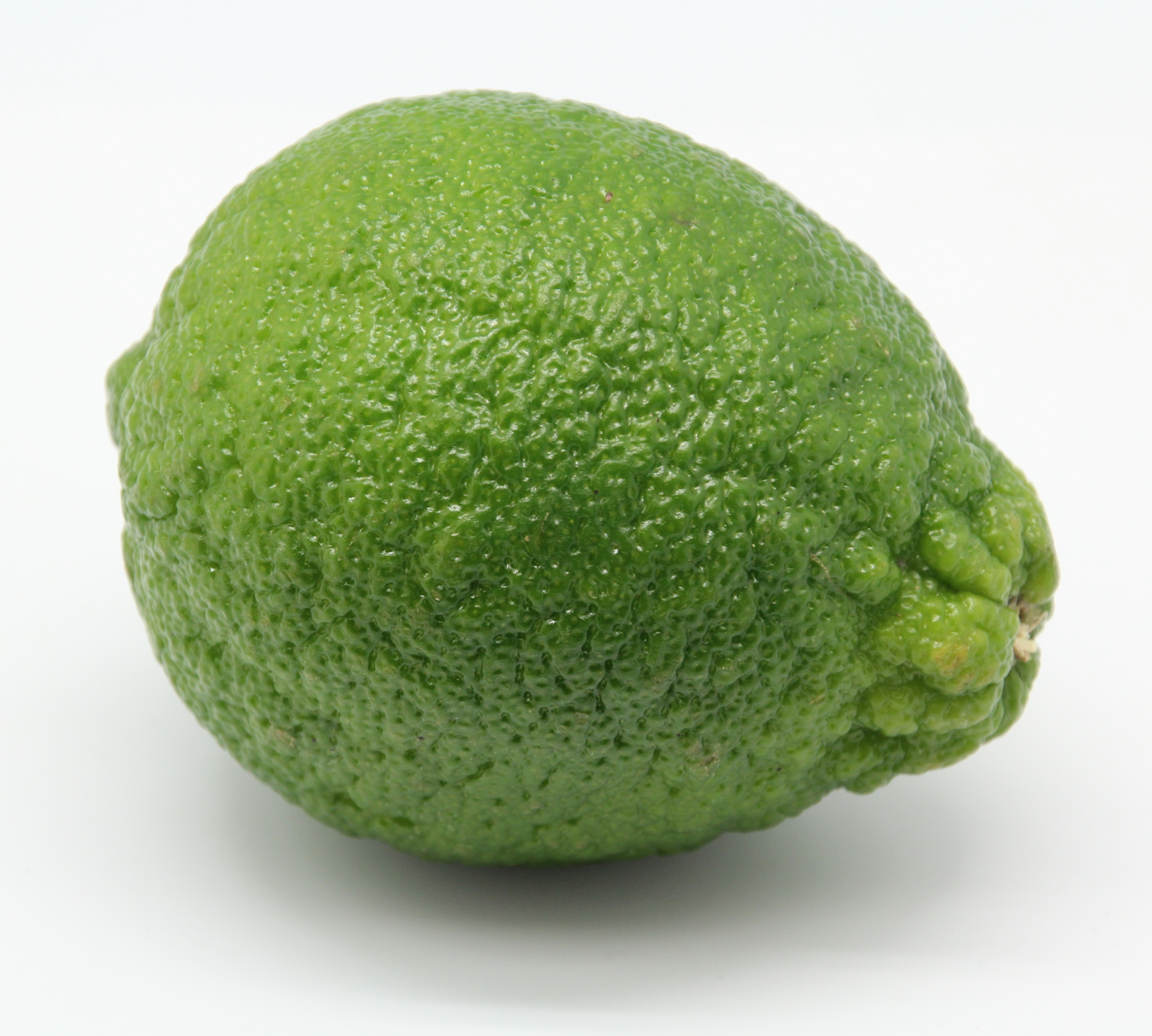 Lime from Mexico. Picture taken during WikiGrenier evening in Wikimedia France offices February 27, 2015 in Paris, France.